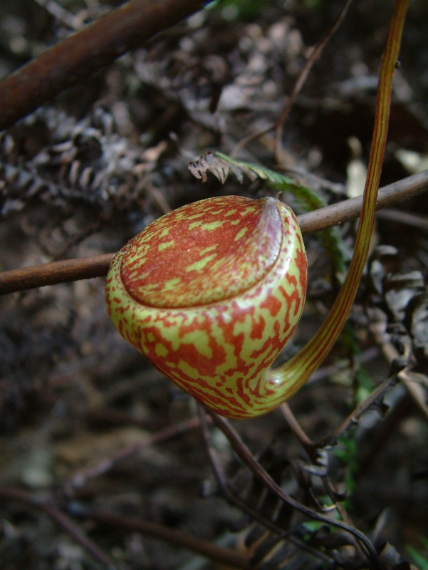 Undescribed Nepenthes species from Sulawesi